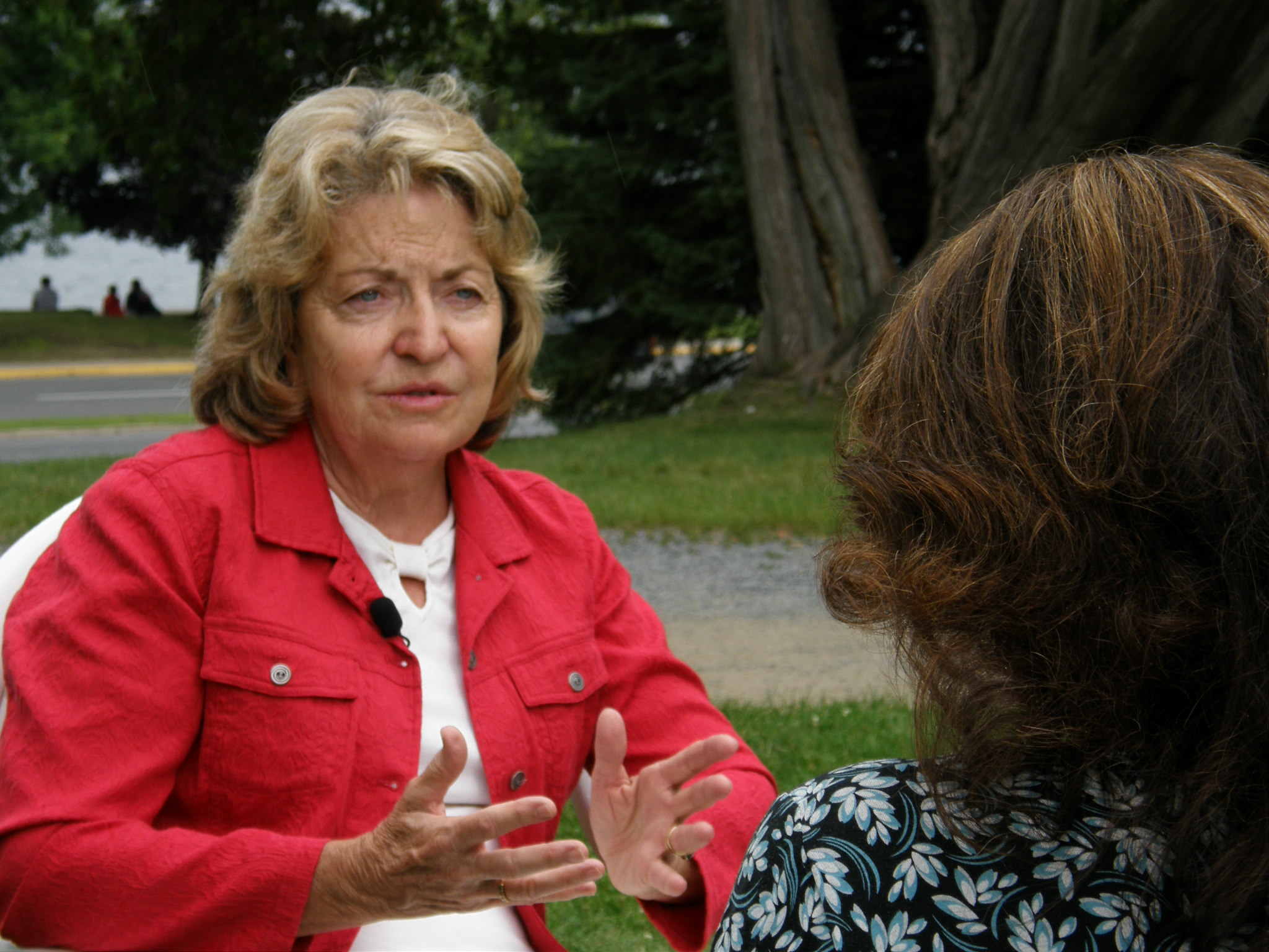 A picture of New York State Senator Betty Litlle being interview by the statewide PBS show "New York Now."